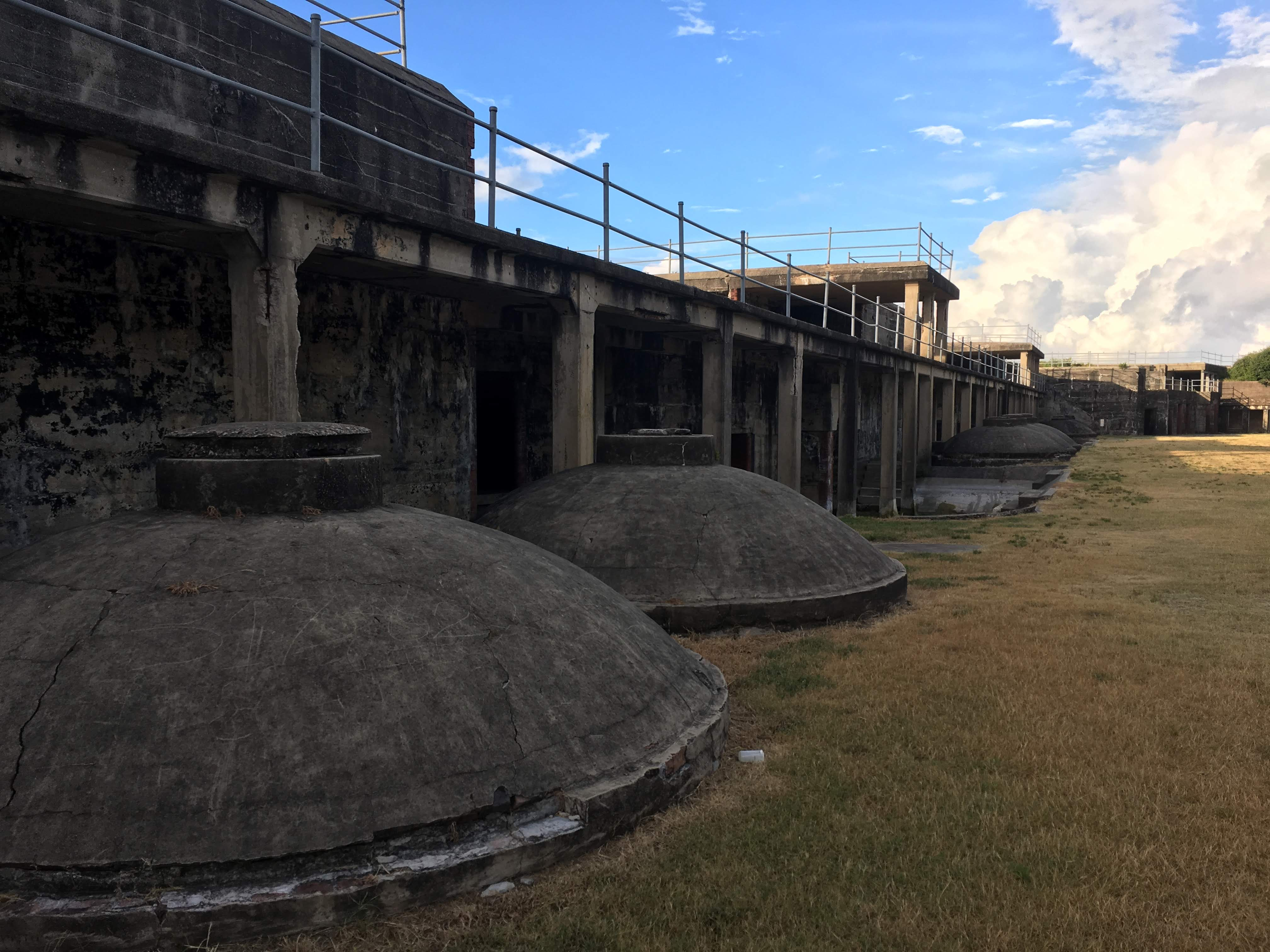 In this wide shot of Battery Swift, another section of Fort Caswell, you can get a good view of all the cisterns built into the ground, used for storing rainwater.